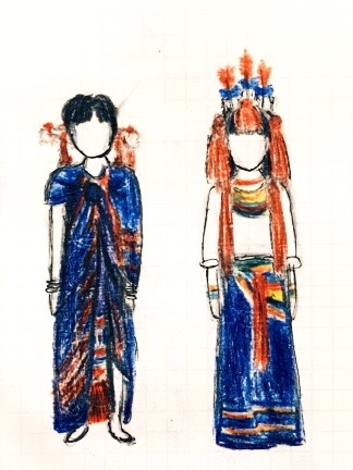 戈族婚禮的服飾